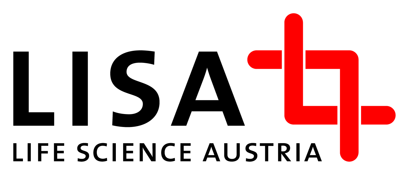 Brand of Life Science Austria